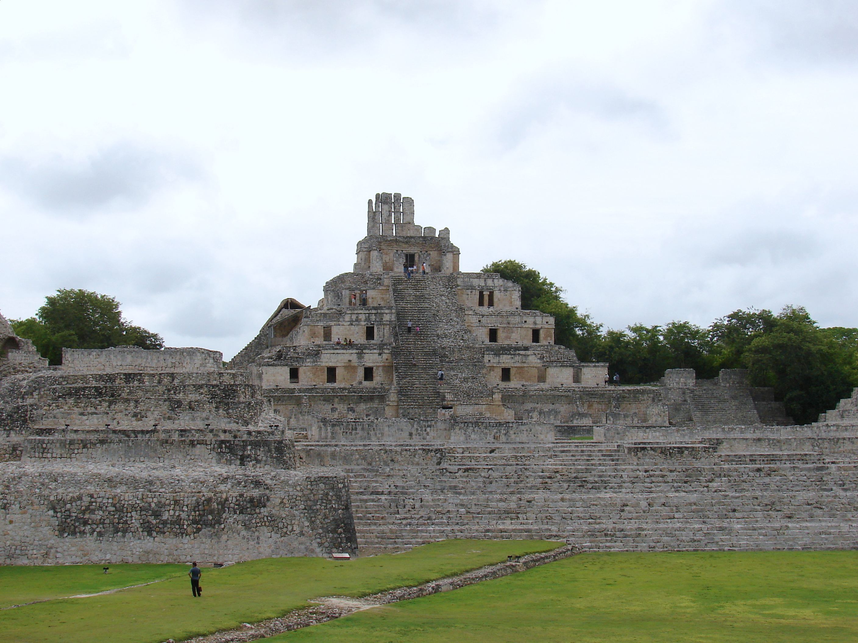 Panoramic of Edzná